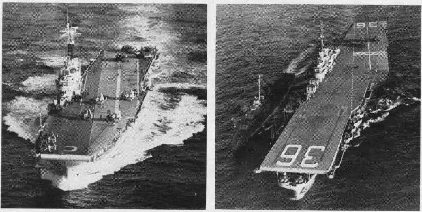 Two photographs from the mid-1950s showing the different angled decks of a British Royal Navy and a U.S. Navy carrier: Left HMS Centaur (R06) with a 5.5° angled deck, and the right picture shows USS Antietam (CVA-36) with a 10.5° angled deck.